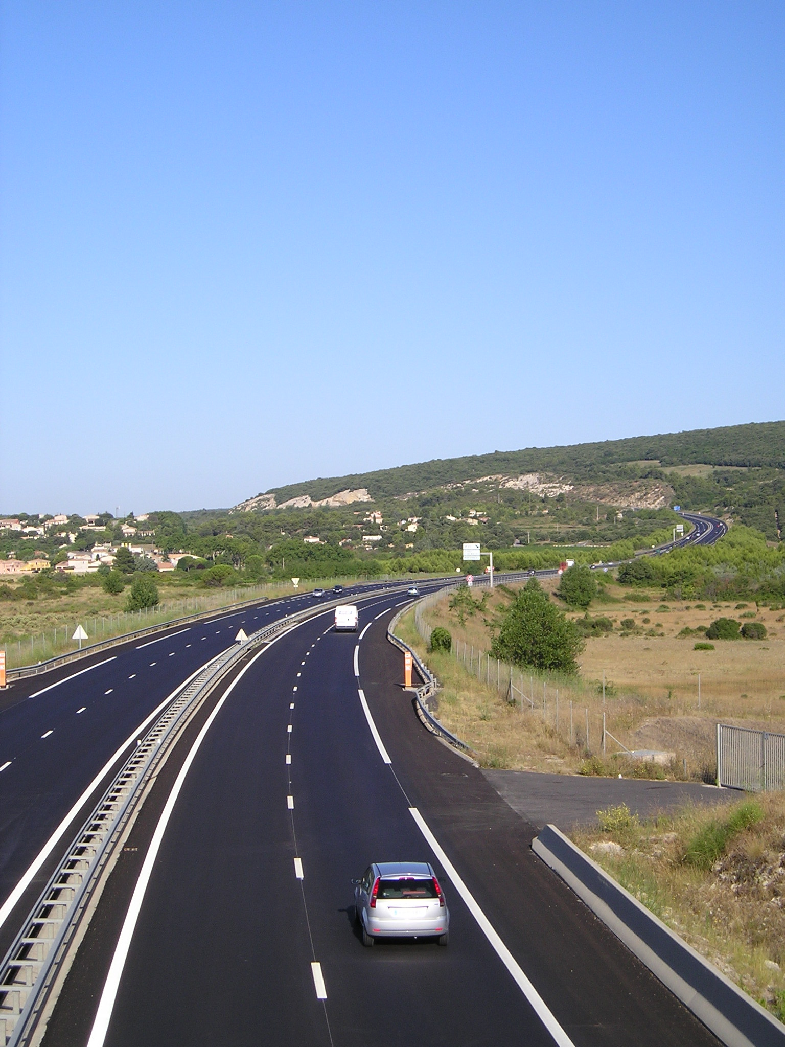 In Hérault, France, Saint-Paul-et-Valmalle (left, South) and the A750 highway (center then right, North), viewed from East and the bridge of D27 road. Hidden in the light-green trees is exit 61 marked by a white sign.